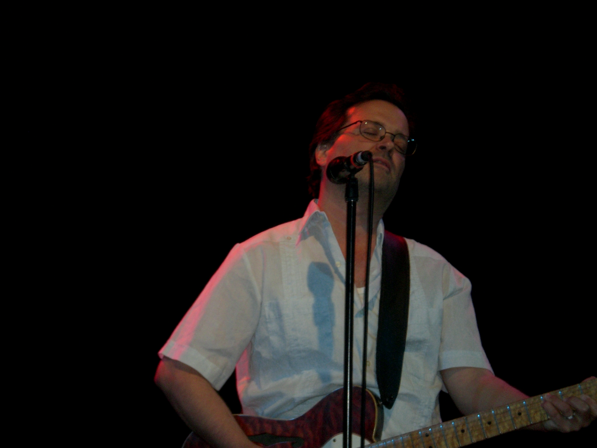 Gordon Gano in concert in Brisbane, Australia